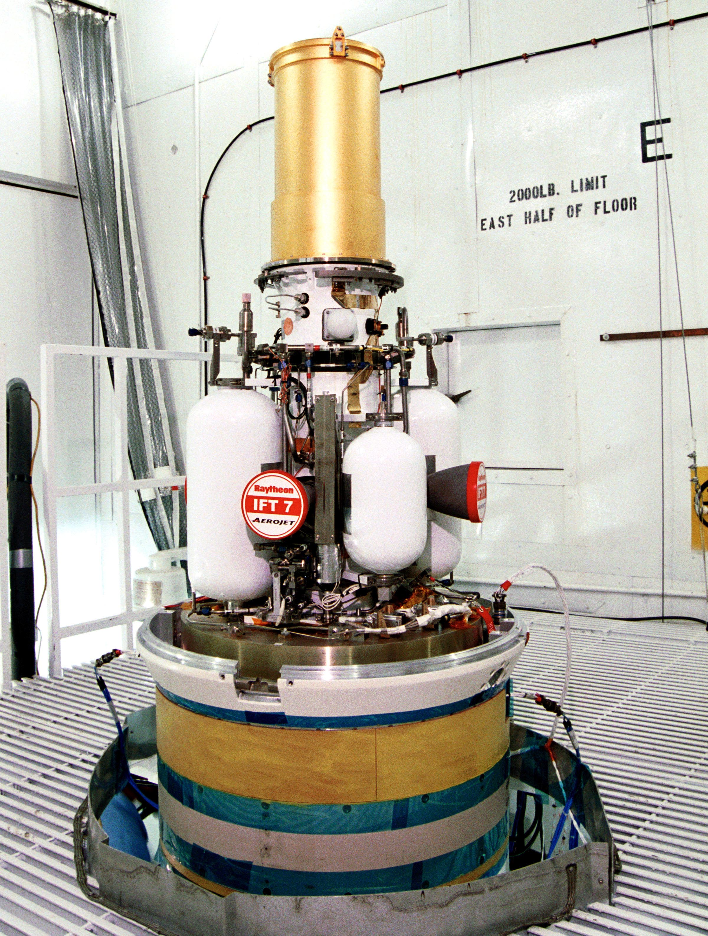 A prototype exoatmospheric kill vehicle is readied for launch from Meck Island at the Kwajalein Missile Range on Dec. 3, 2001, for a planned intercept of a ballistic missile target over the central Pacific Ocean. The target vehicle, a modified Minuteman intercontinental ballistic missile, will be launched from Vandenberg Air Force Base, Calif. The interceptor is planned to hit the target more than 140 miles above the Earth during the midcourse phase of the warhead's flight.